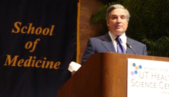 Francisco G. Cigarroa. University of Texas System Chancellor. Former UTHSCSA president. Speaking in San Antonio for the 40th anniversary of the UTHSCSA Medical School.